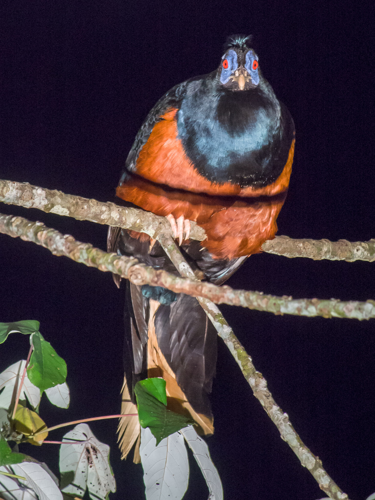 Roosting Male Crested Fireback